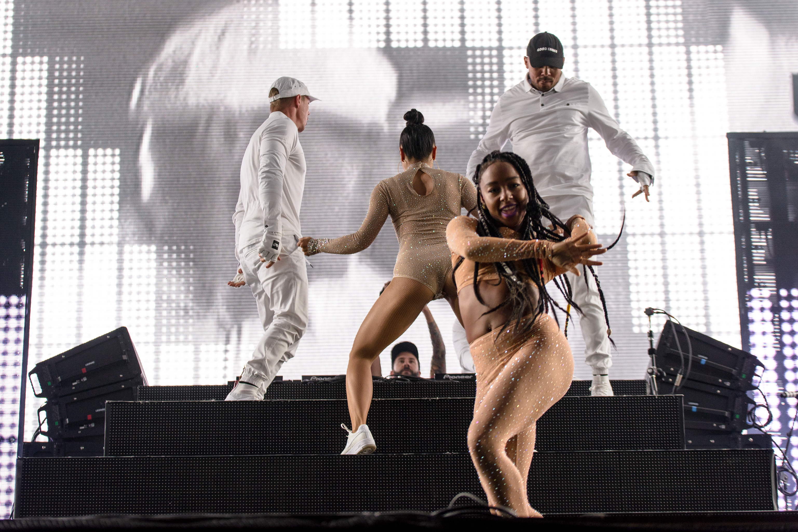 Major Lazer @ Rock im Park 2016